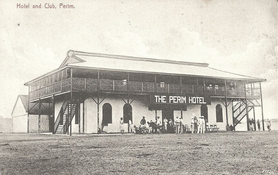 The Perim Hotel, the only hotel Perim ever had during the British period, was initially called the Grand Hotel when it was built before 1888, then The Oriental, and finally The Perim Hotel. Perim's cricket grounds were next to the hotel and most of the people shown on this picture from circa 1910 are probably cricket players. Accommodations tended to be very basic on Perim Island, where all activities centered on coaling operations until 1936. The hotel belonged to the Perim Coal Company. Contemporary real photo postcard.